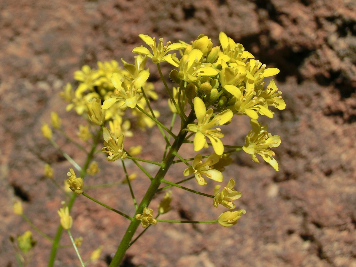 Descurainia bourgaeana, inflorescence. Tenerife, Teide National Park, near parking place "Minos de San Jose", between rocks and fine volcanic gravel , ca. 2300 m.